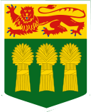 Shield of Arms of Saskatchewan